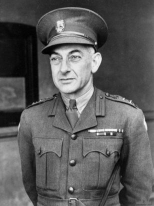 Photograph portrait of Brig. Jack Edwin Stawell Stevens E.D. taken in Sydney, Australia in 1940.